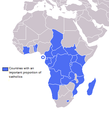 Pays ou le catholicisme est une religion importante. Countries whith an immportant catholic population.